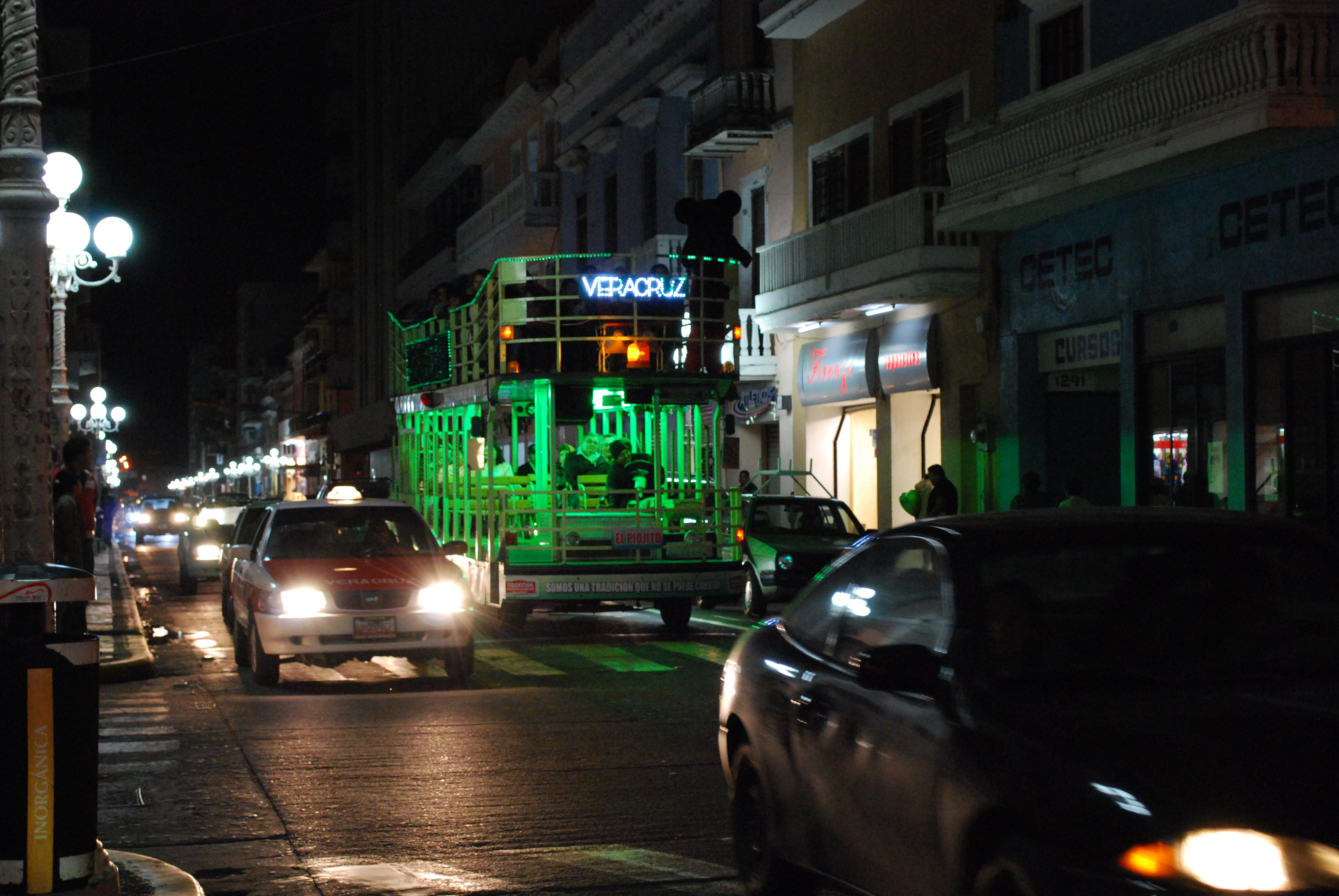 Tourist trolley on Independencia in Veracruz city, Mexico